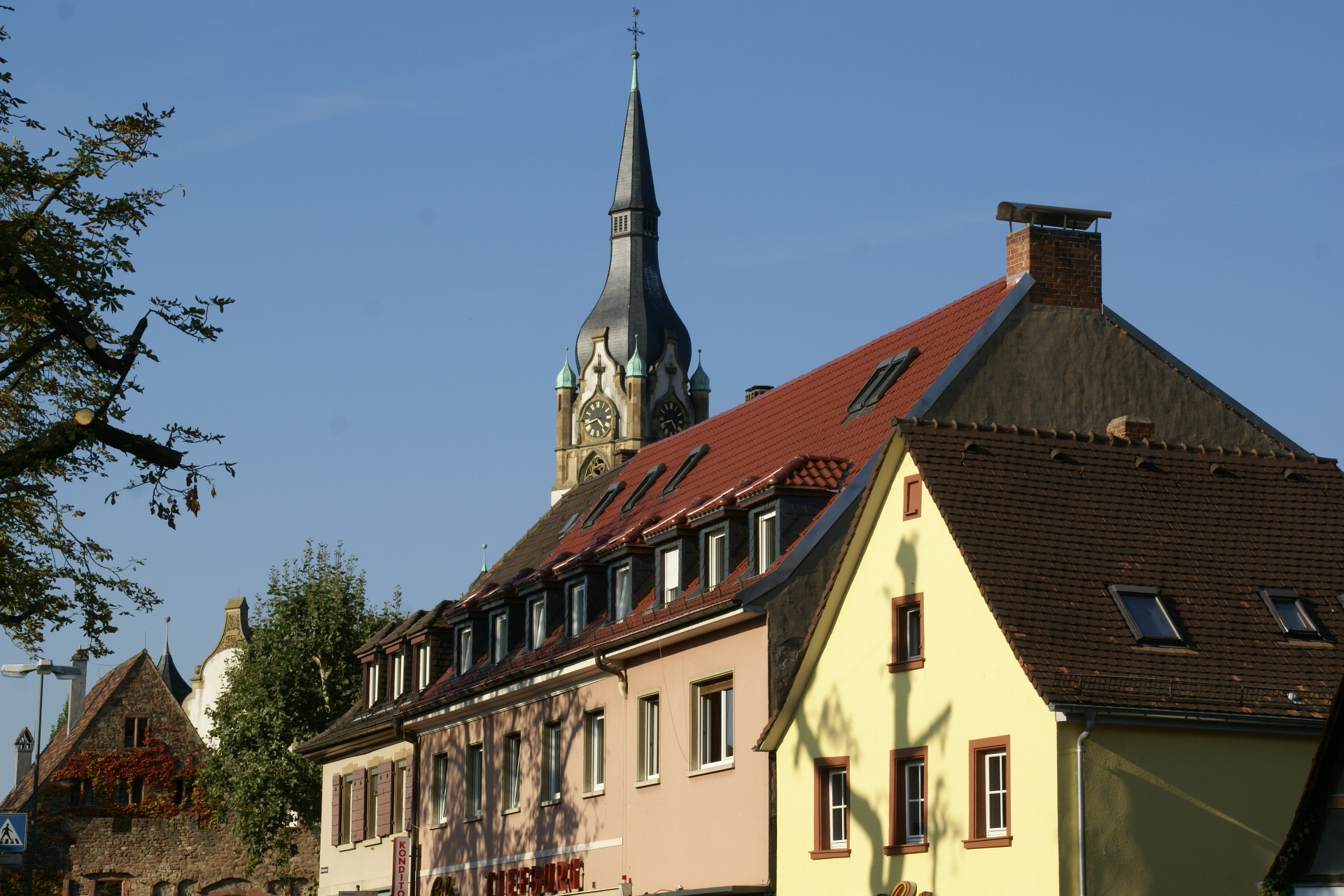 View of the Tiefburg ruin and the tower of the Friedenskirche (Peace Church) from Steuben Street in Heidelberg-Handschuhsheim, Germany